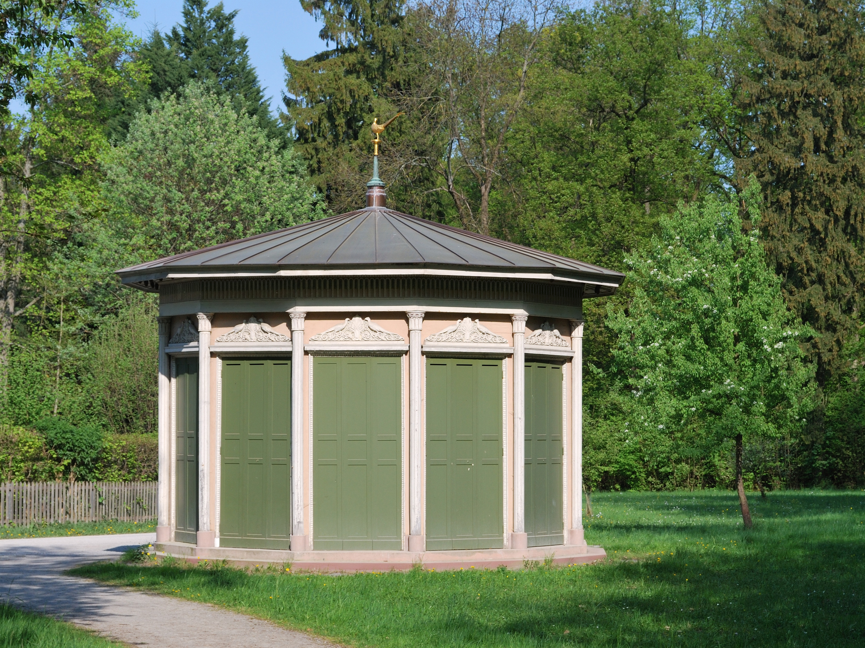 Hunting pavilion in the Fasanengarten (pheasant garden) in Weilimdorf, a district of the city Stuttgart in Southern Germany.